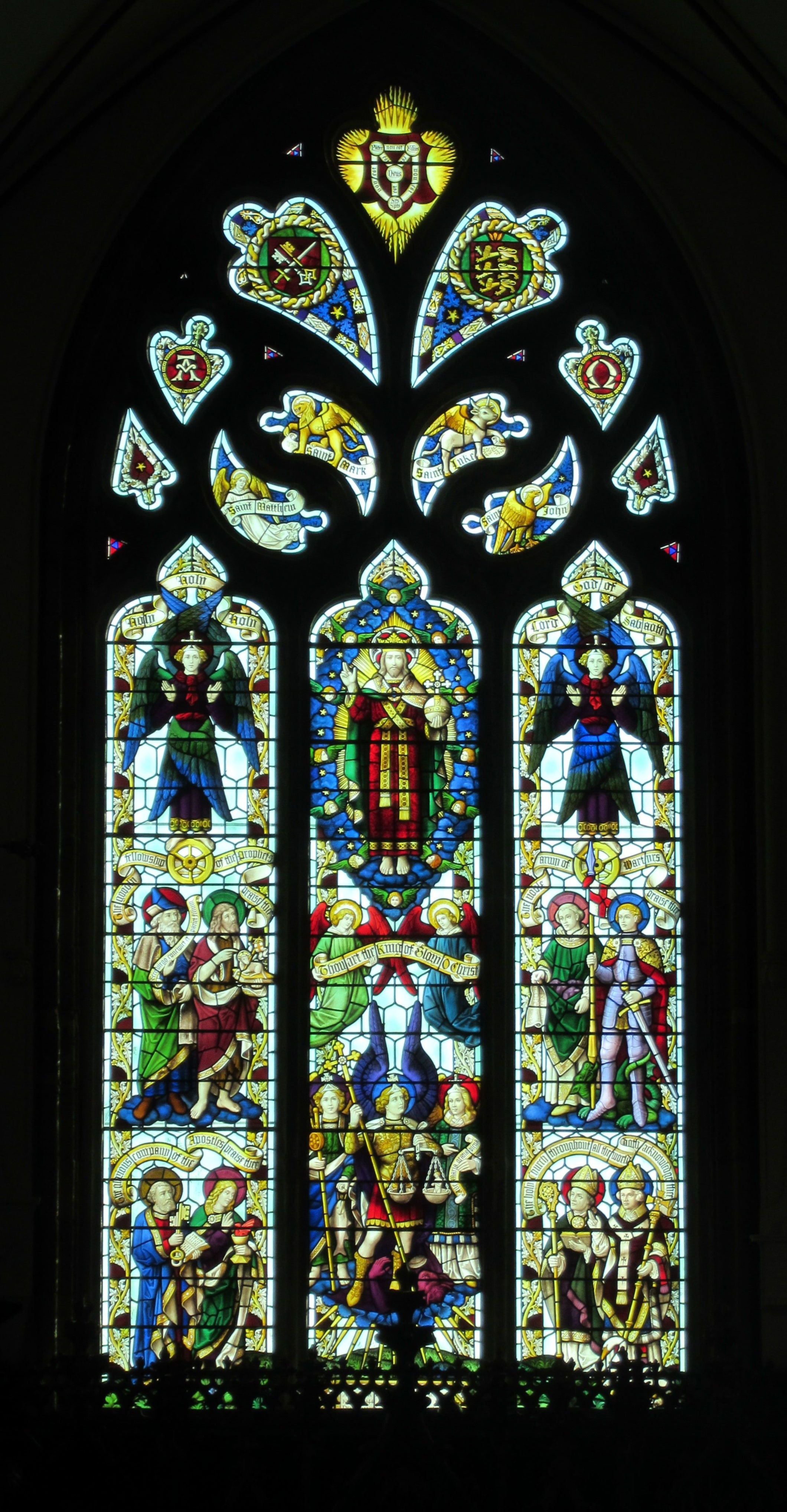 Stained-glass window in the Town Church of Saint Peter Port, Guernsey.